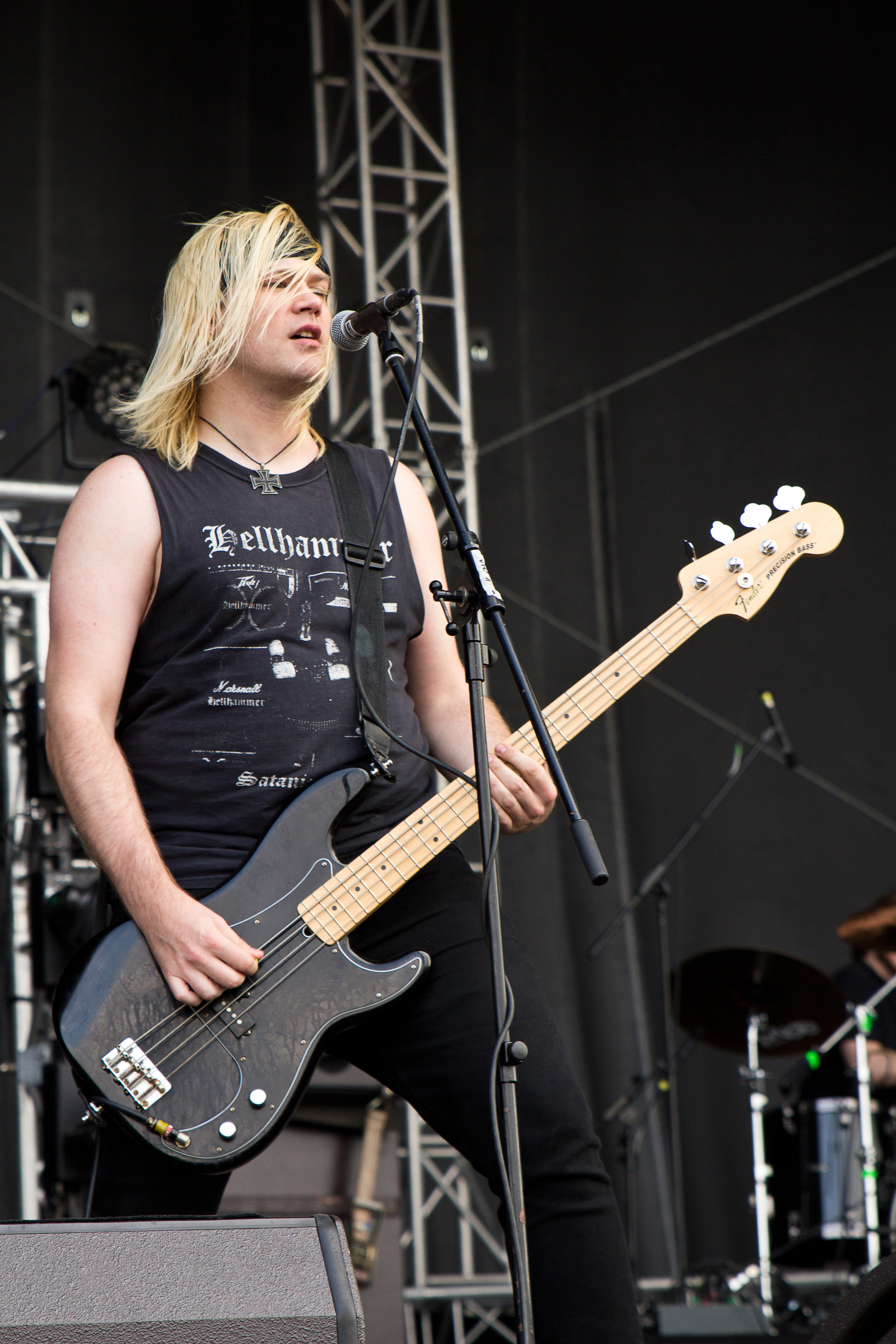 The American thrash metal band Toxic Holocaust at the Party.San Open Air 2015 in Obermehler-Schlotheim/Germany.